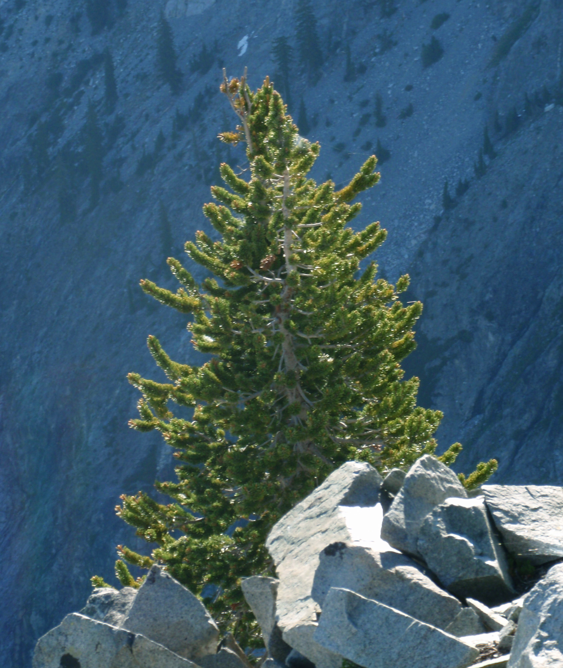 Pinus balfouriana — Foxtail pine, young tree. In the Trinity Alps Wilderness of the Trinity Alps—Klamath Mountains, northern California.